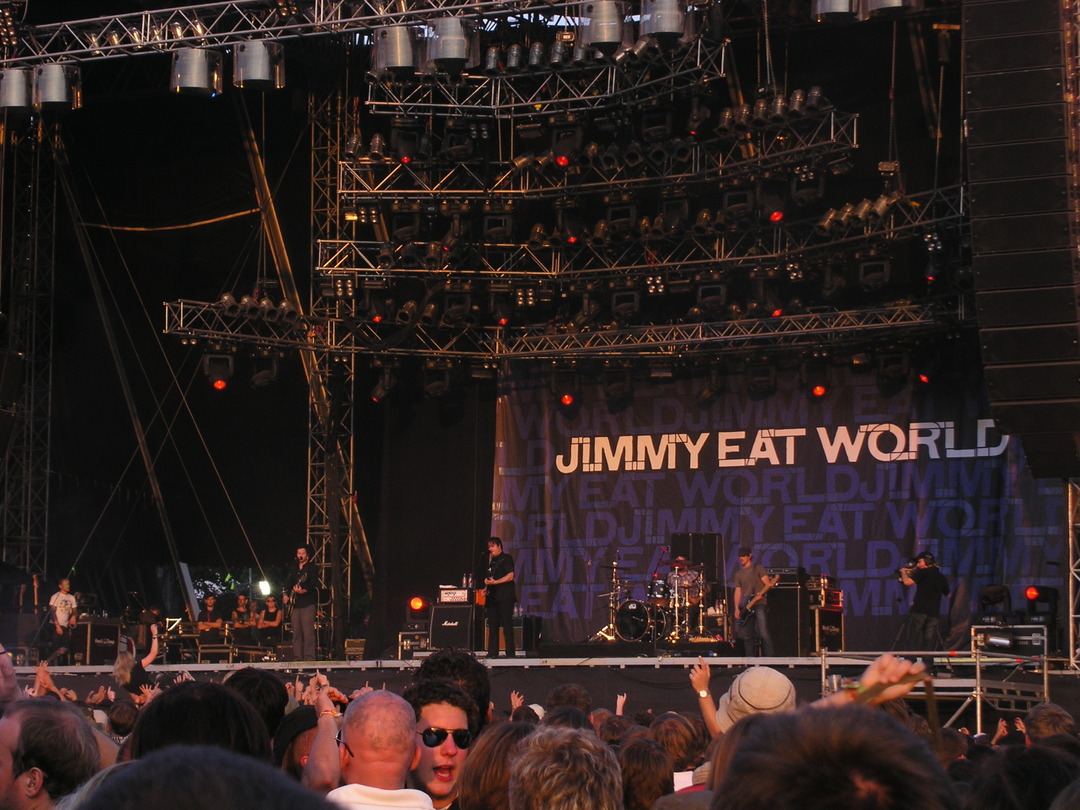 Jimmy Eat World on August 19, 2007 at the Highfield Festival.